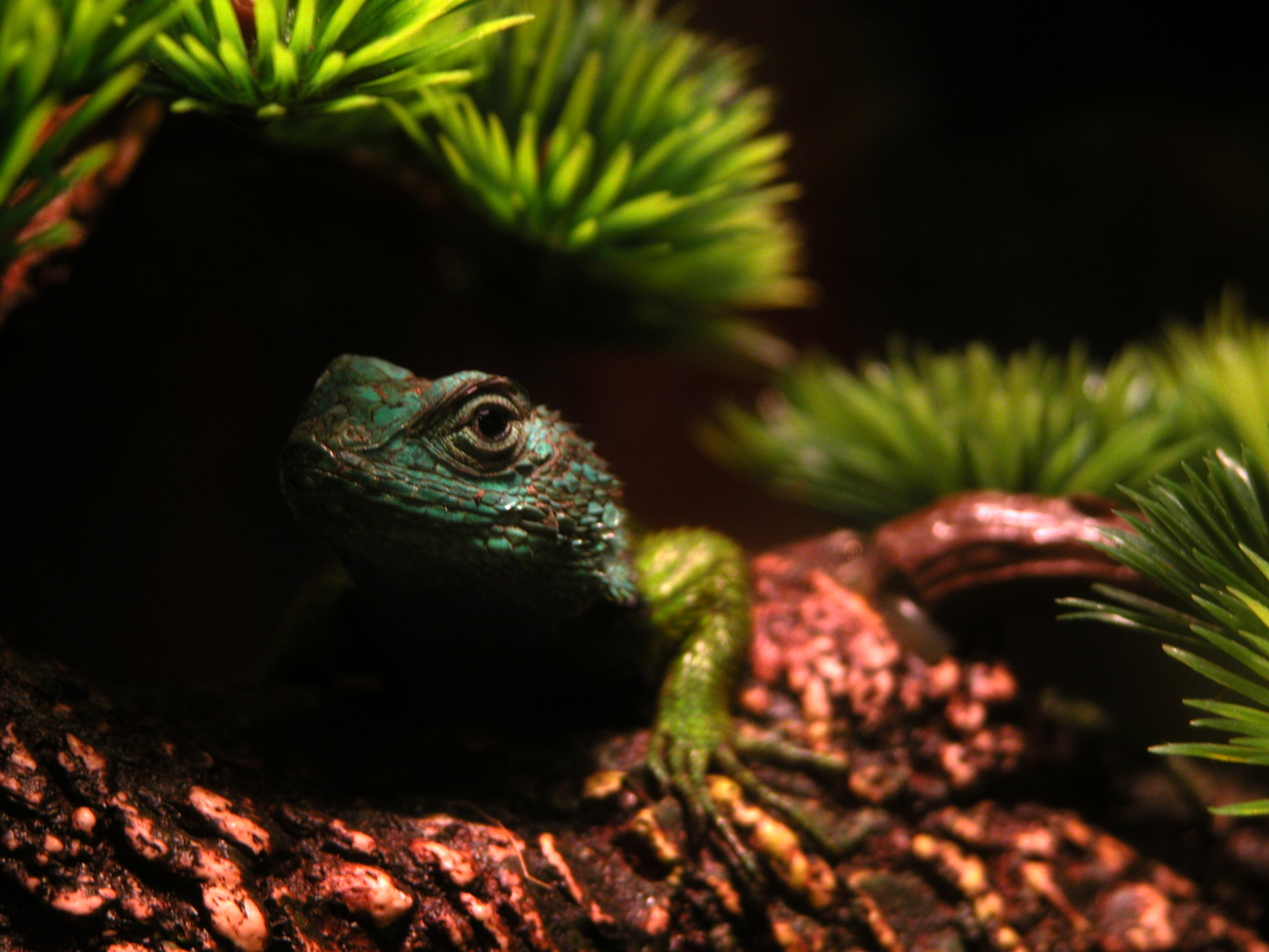 Captive Emerald Swift (Sceloporus malachiticus) on an artificial plant in a terrarium.